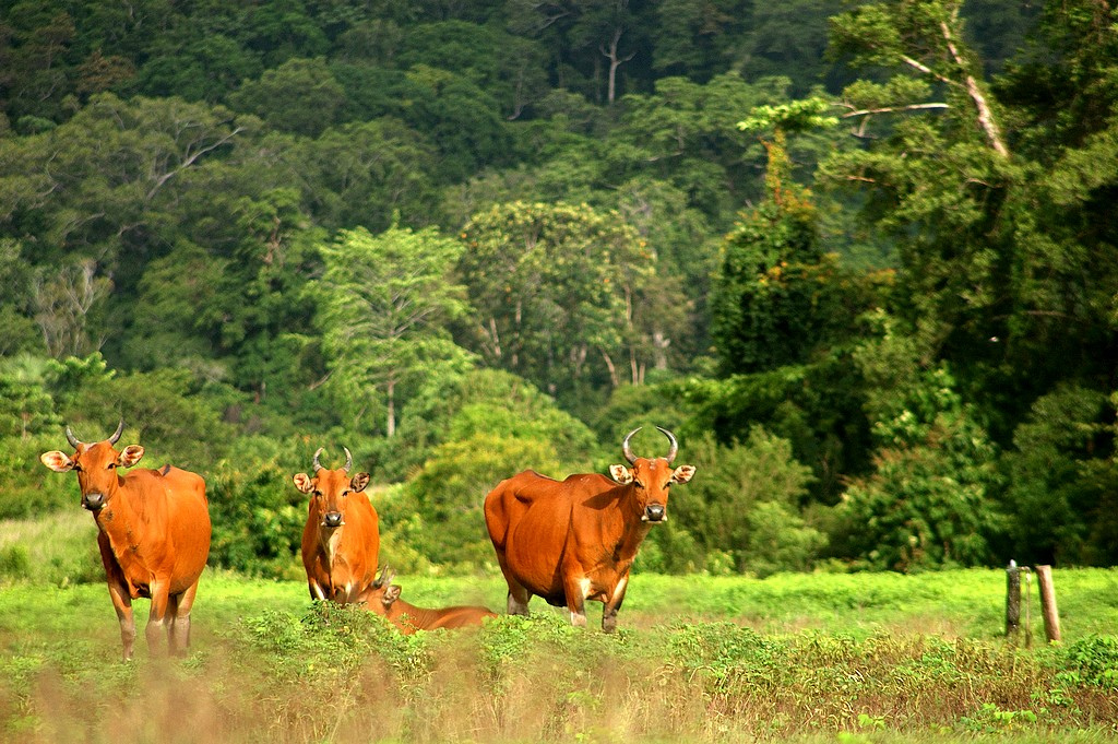 Banteng at Sadengan, Alas Purwo National Park, Java, Indonesia